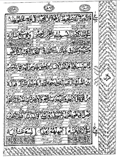 A page from a Koran, Arabo-Persian-Urdu